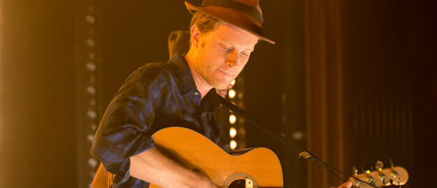 Wesley Schultz of The Lumineers The trio behind this summer's sleeper hit, 'Ho Hey,' performs an exclusive set - live from Chicago! Check out The Lumineers in a six song set, including 'Submarines,' 'Flowers In Your Hair,' and 'Ho Hey.' Plus, lead singer Wesley Schultz opens up to Walmart Soundcheck about moving from New York City to Denver, a CraigsList meeting that changed his life, and the story behind the band's self-titled debut.